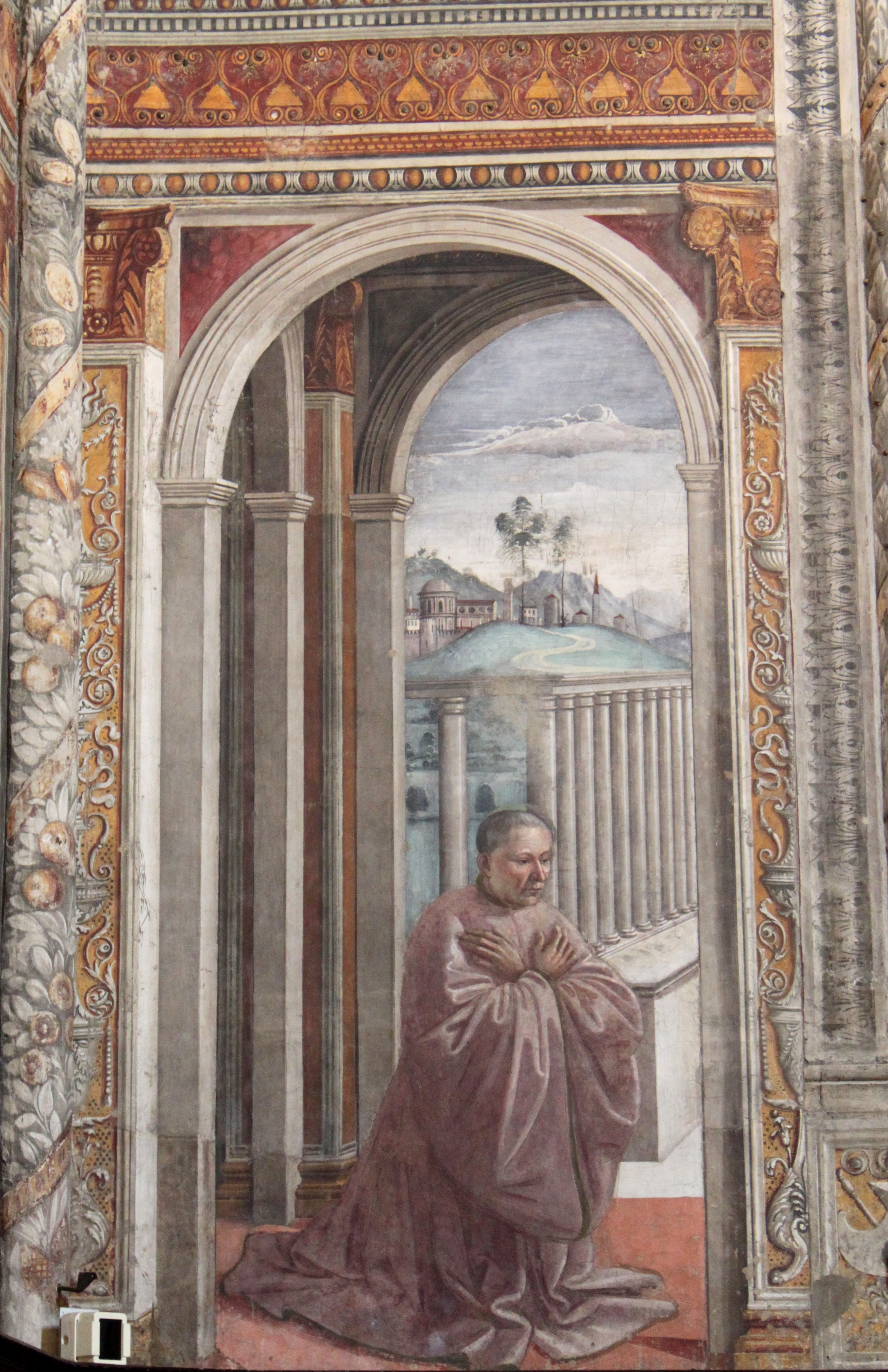 Domenico Ghirlandaio and workshop, Portrait of Giovanni Tornabuoni, 1486–1490, fresco, Tornabuoni chapel, Santa Maria Novella, Florence